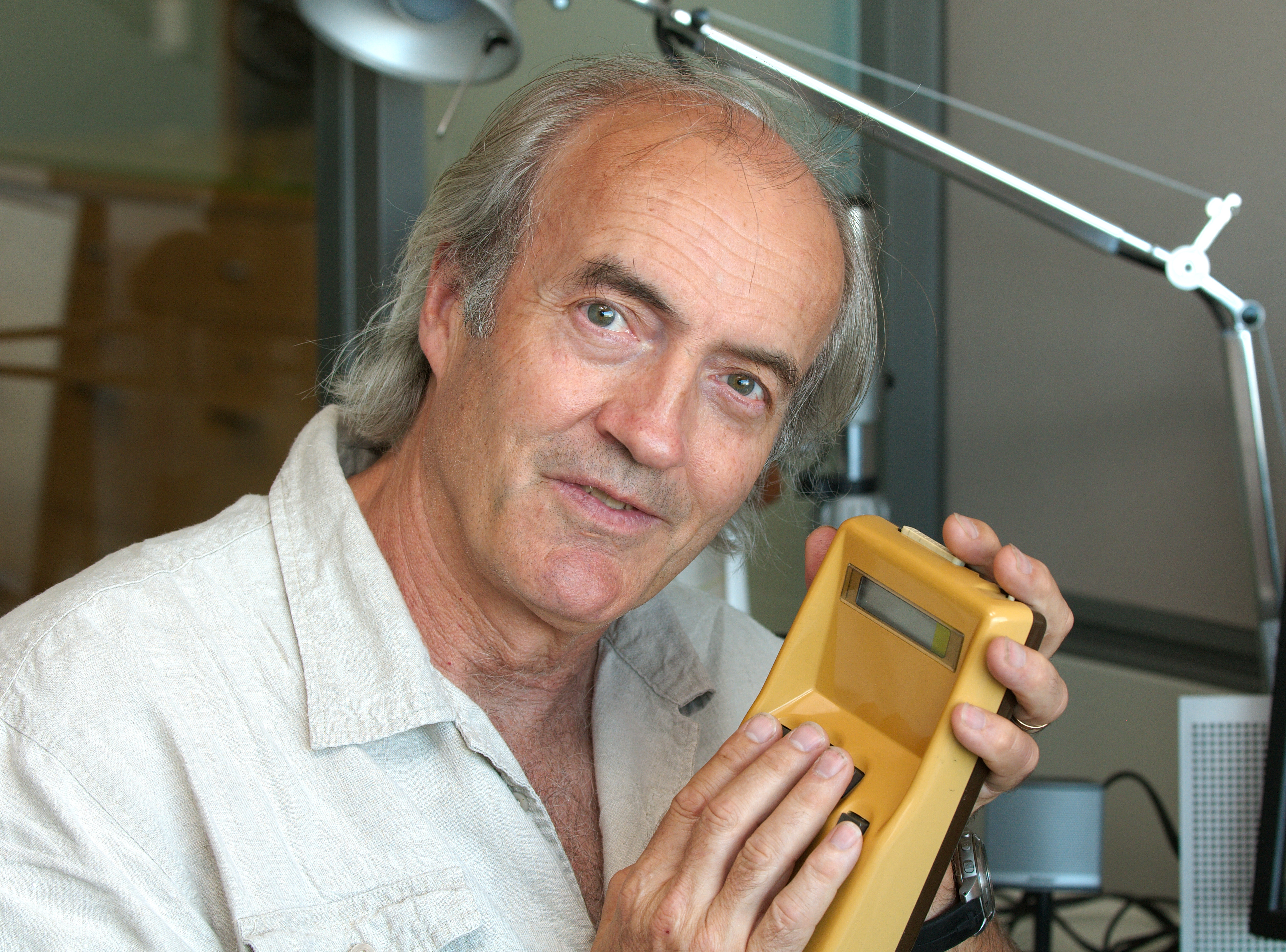 Computer science researcher Bill Buxton in his Microsoft Research Redmond office in 2009, with his hand on a 1978 Microwriter chord keyboard device from his private collection. His primary office is in Toronto.